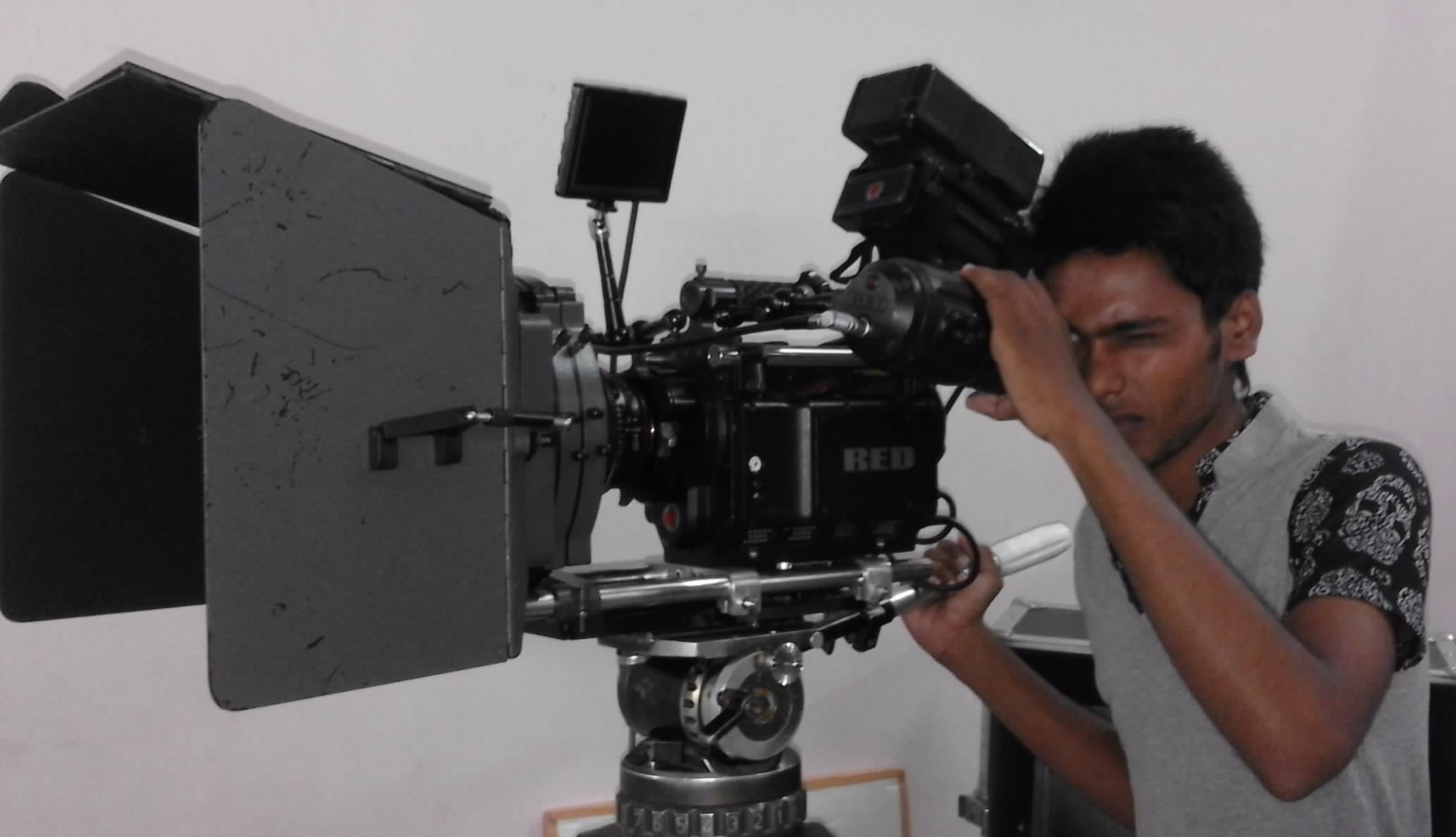 During shoot at mumbai